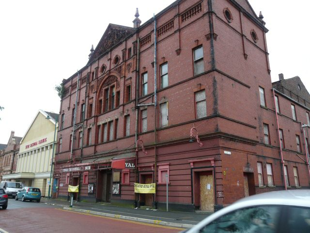 Theatre Royal Heritage Open Day The Theatre Royal Onward was open for viewing on the Heritage Open Days in September. More photographs and information at